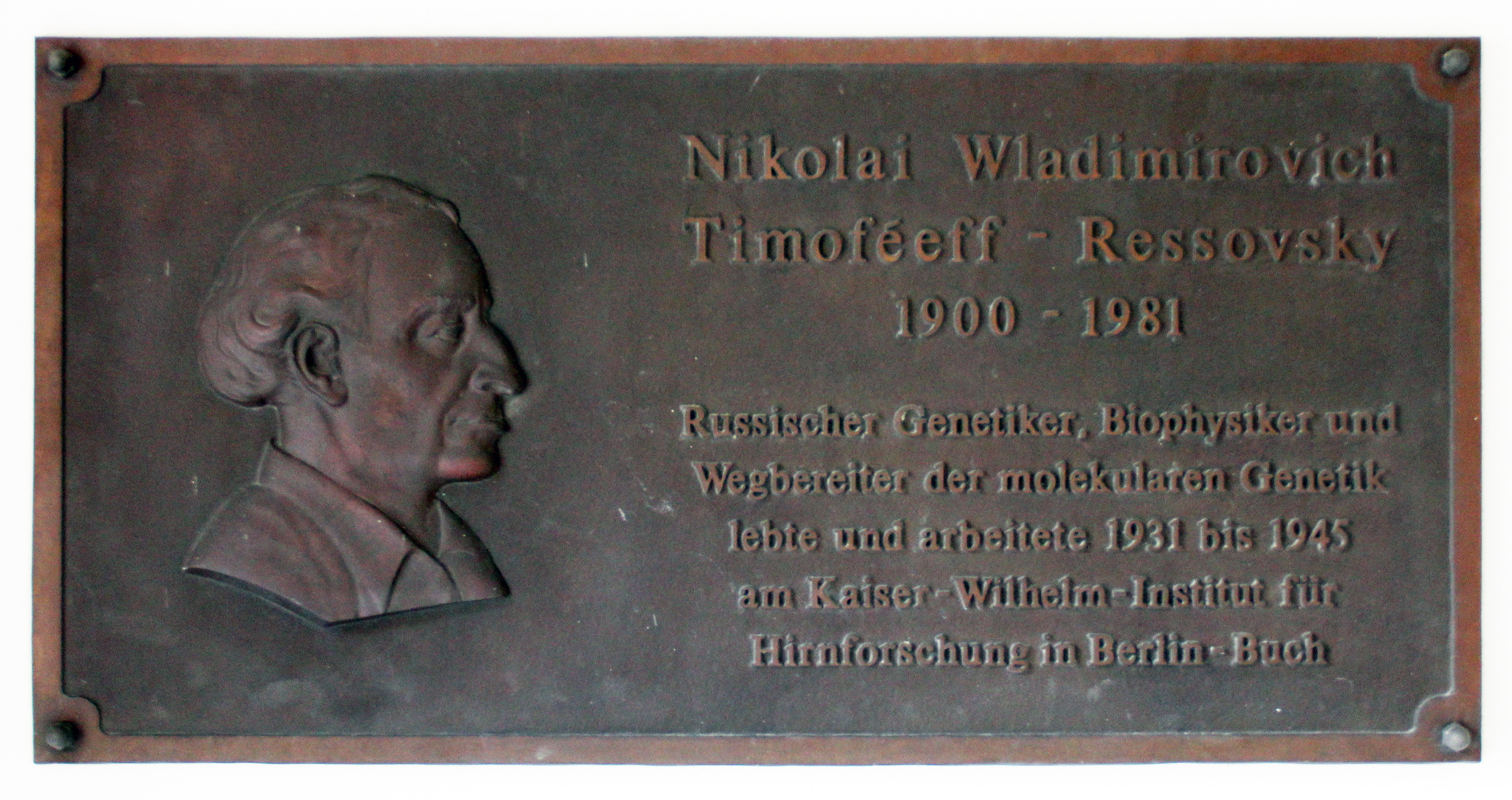 Memorial plaque, Nikolai Wladimirowitsch Timofejew-Ressowski, Robert-Rössle-Straße 10, Berlin-Buch, Germany